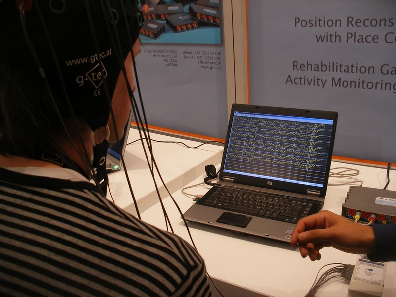 Tags: prague conference eeg fet09